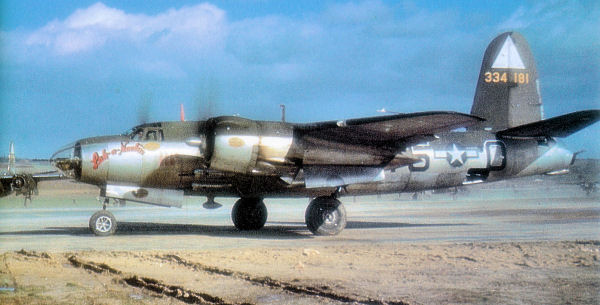 B-26 Serial 43-34181 of the 495th Bombardment Squadron, Stansted Airfield England - World War II.